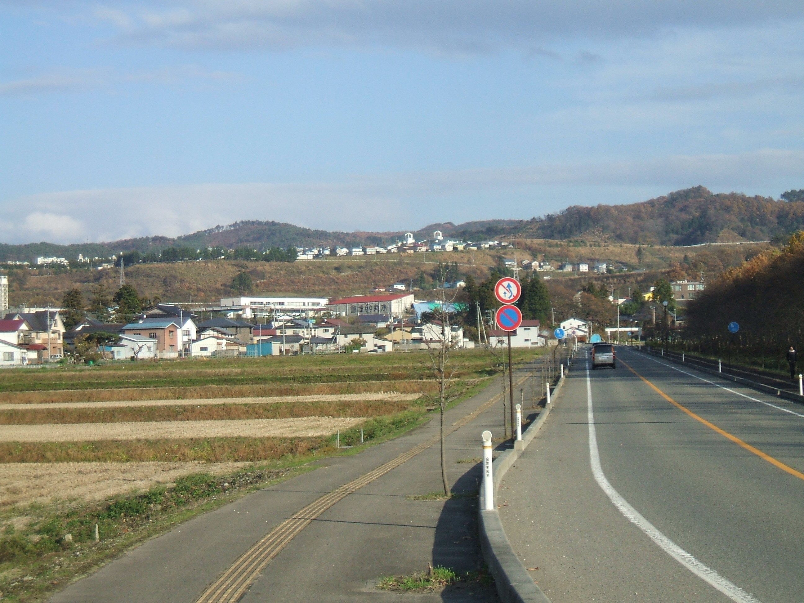 Landscape of Aizuwakamatsu City, Fukushima. It was taken at Ikkimachi town Tsuruga.